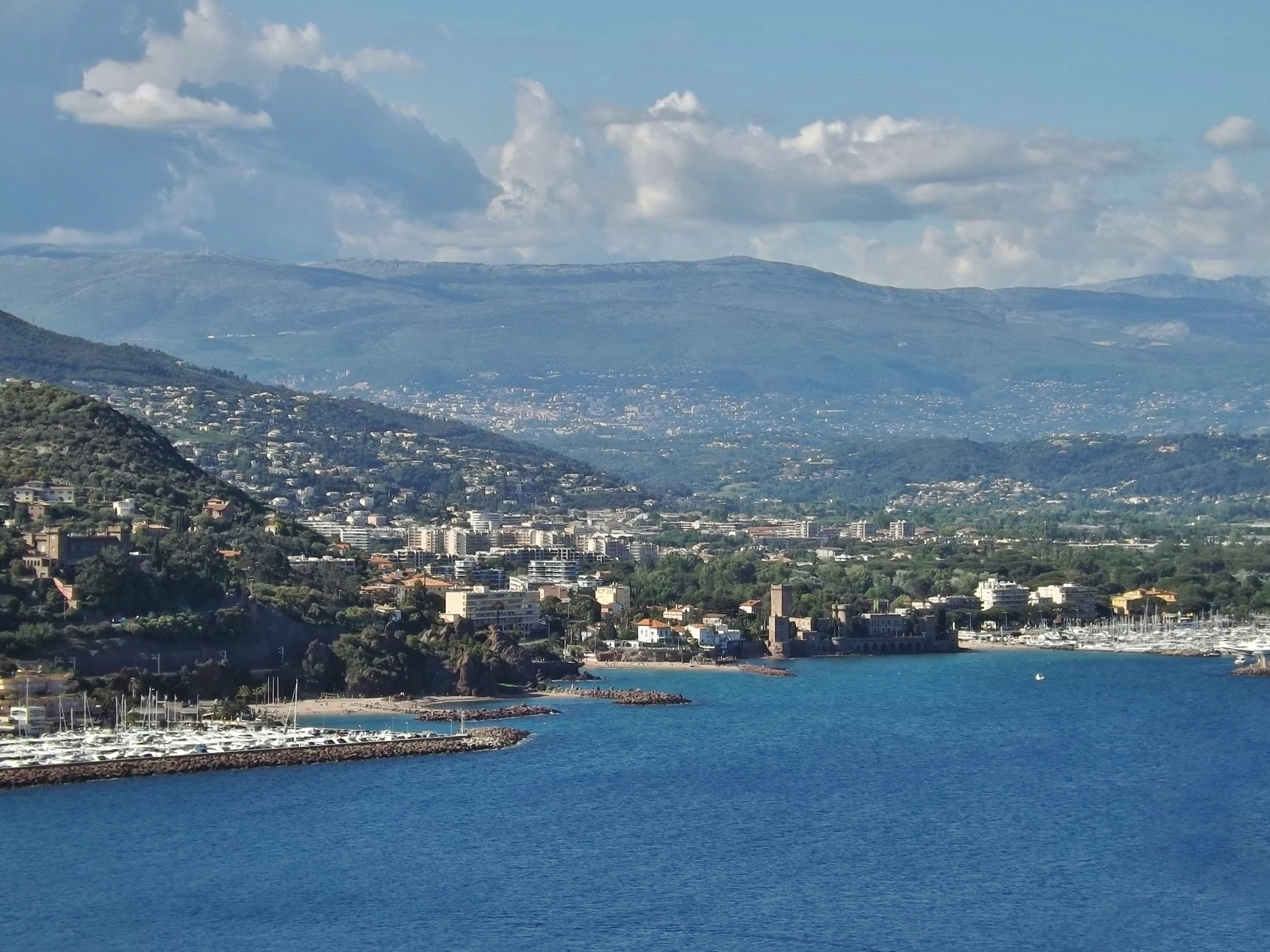 Panoramic sight, from the heights of Théoule-sur-Mer, of the French commune of Mandelieu-la-Napoule, near Cannes on the Riviera Coast in Alpes-Maritimes.